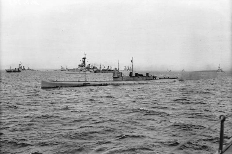 Photograph of British submarine K 3. IWM caption : "Submarine K.3 passing the surrendered battleships of the German Grand Fleet."